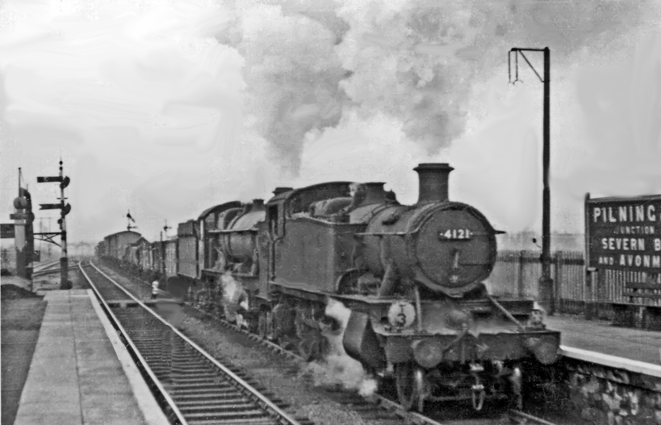 Piloted Up freight climbing out of the Severn Tunnel through Pilning High Level station. One of the 2-6-2Ts dedicated to assisting freight trains through the Tunnel, Collett '5100' No. 4121 (built 12/37, withdrawn 6/65, but was preserved and is currently undergoing restoration at Tyseley Locomotive Works), is piloting Collett 4-6-0 No. 4998 'Eyton Hall' (built 3/31, withdrawn 10/63) - a fine sight and sound. Note the sign 'Pilning Junction for Severn Beach and Avonmouth': the service via Severn Beach was still in operation (until 11/64).